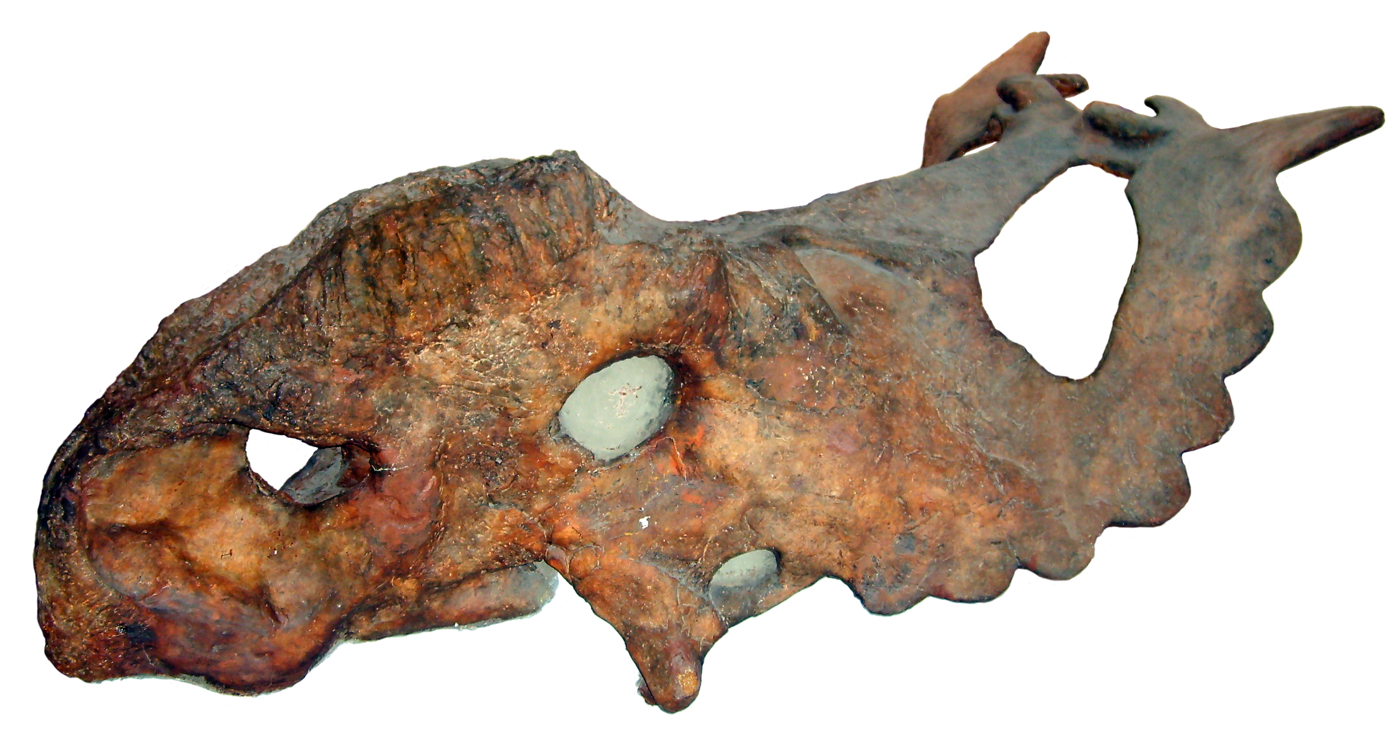 Pachyrhinosaurus canadensis skull cast at the Geological Museum in Copenhagen.